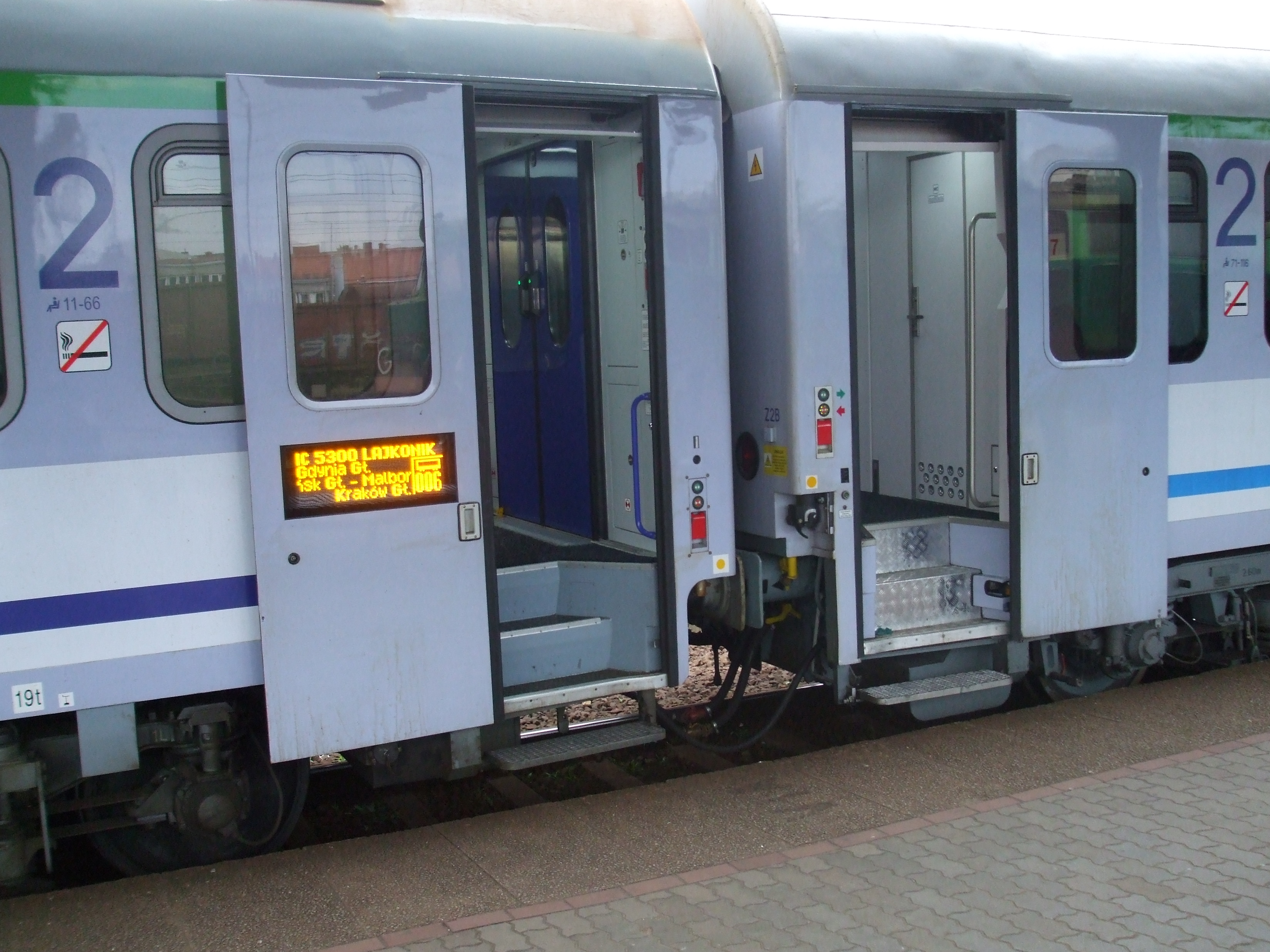 Malbork railway station.